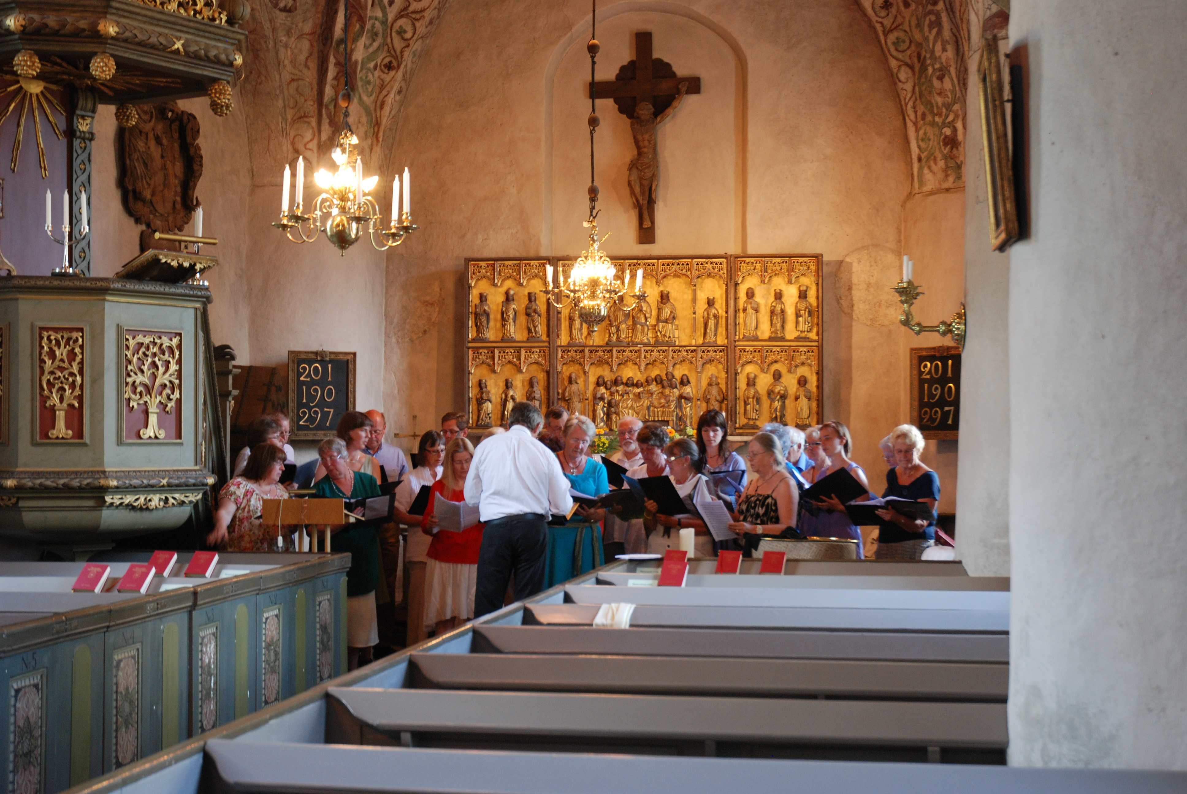 Lagga Church Choir rehearsal